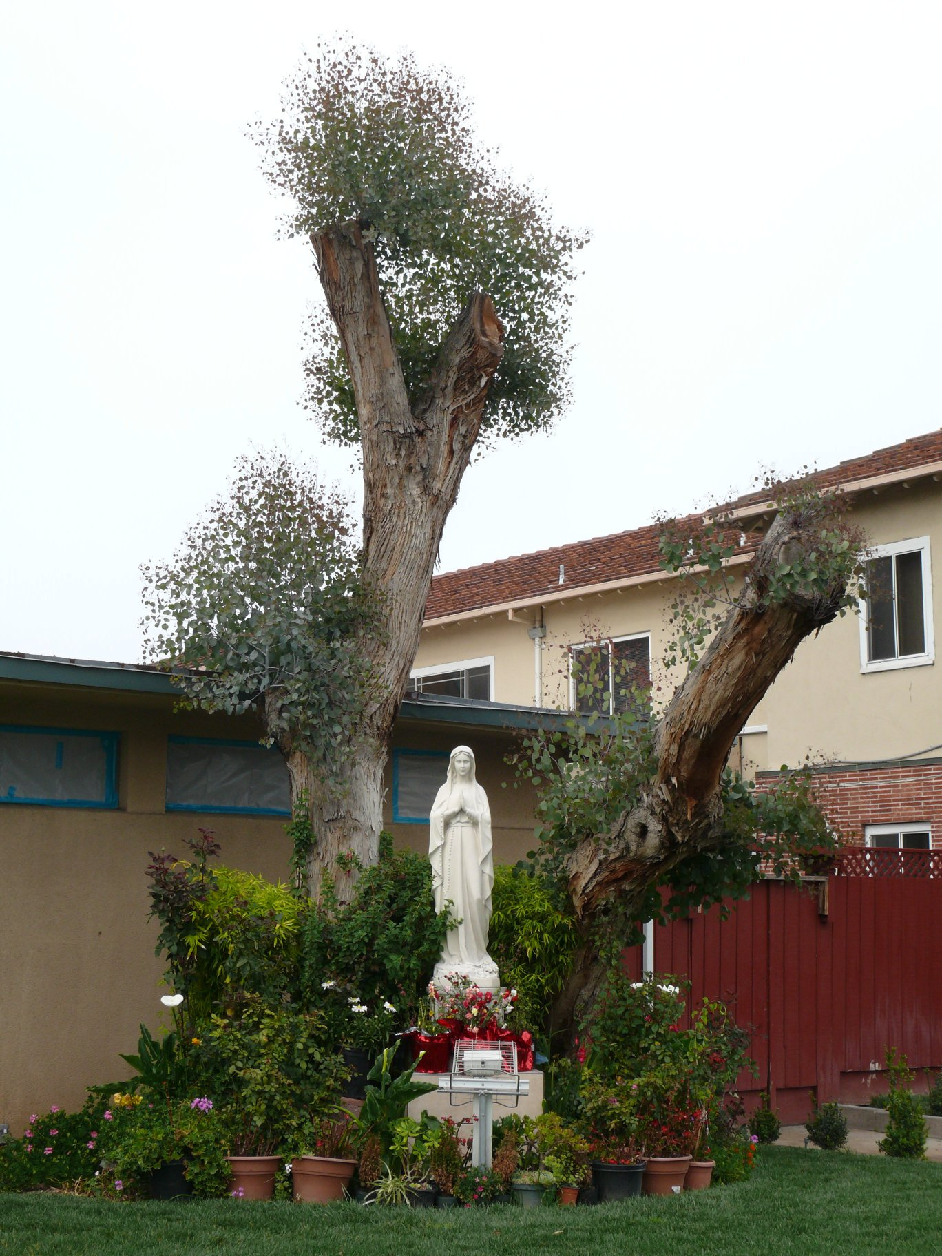 Saint Patrick Proto-Cathedral of San José (California, USA).